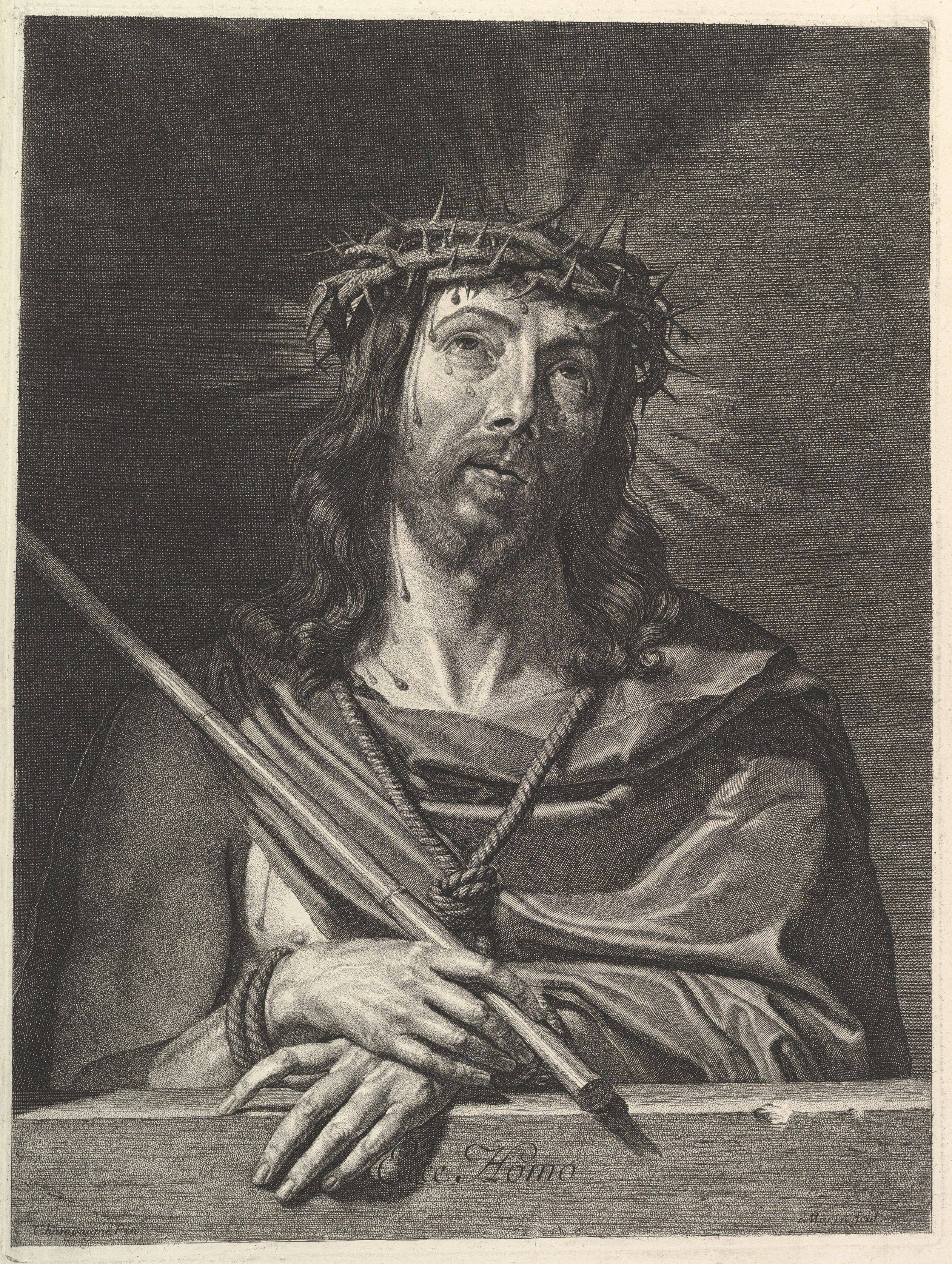 Print; Prints